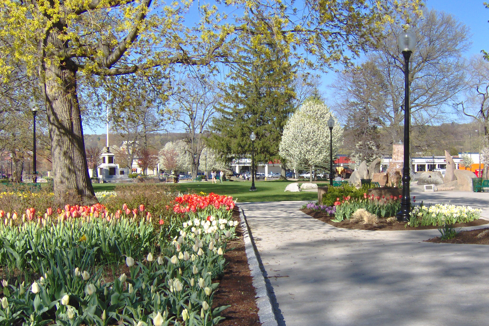 Beautiful Coe Memorial Park is located in the 'heart' of a small city named Torrington in Connecticut, USA.